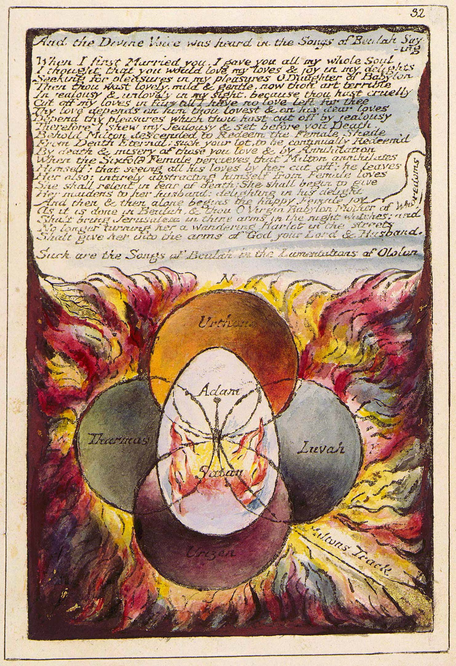 Plate from Milton:A Poem Copy C currently held at the New York Public Library. Image is Object 34 in the copy, hand-coloured after printing. This version depicts the relationship of the four Zoas.